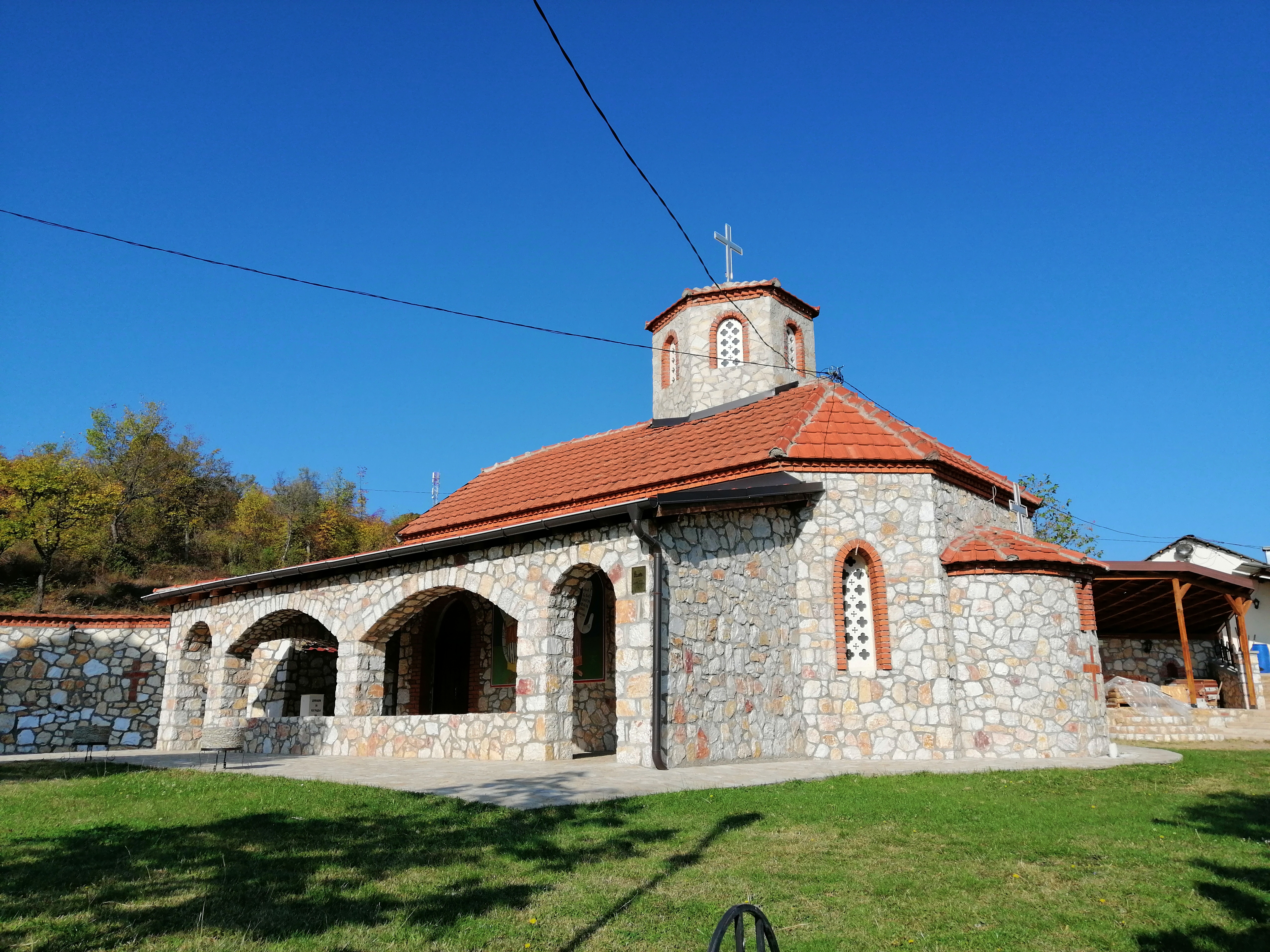 View of St. Athanasius Church in the village Gluvo